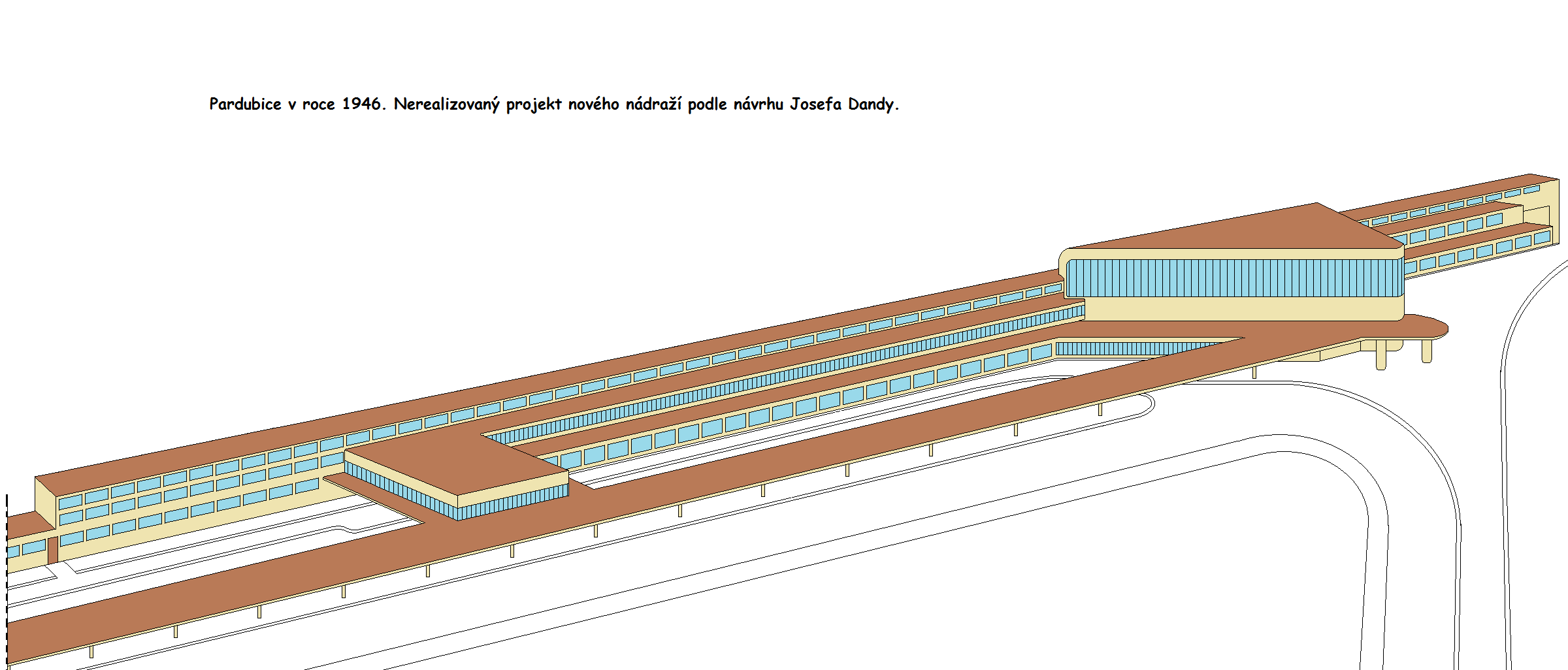 Unrealized project, railway station in Pardubice.